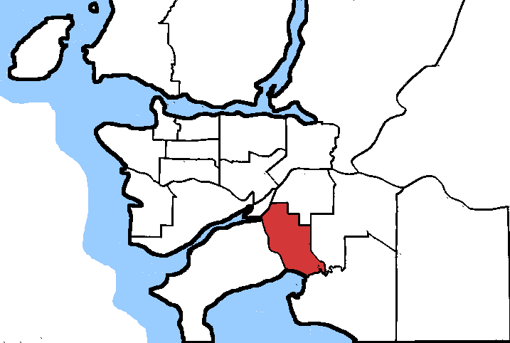 Map of the Newton—North Delta electoral district. Based on Earl Andrew's maps, created by SimonP.